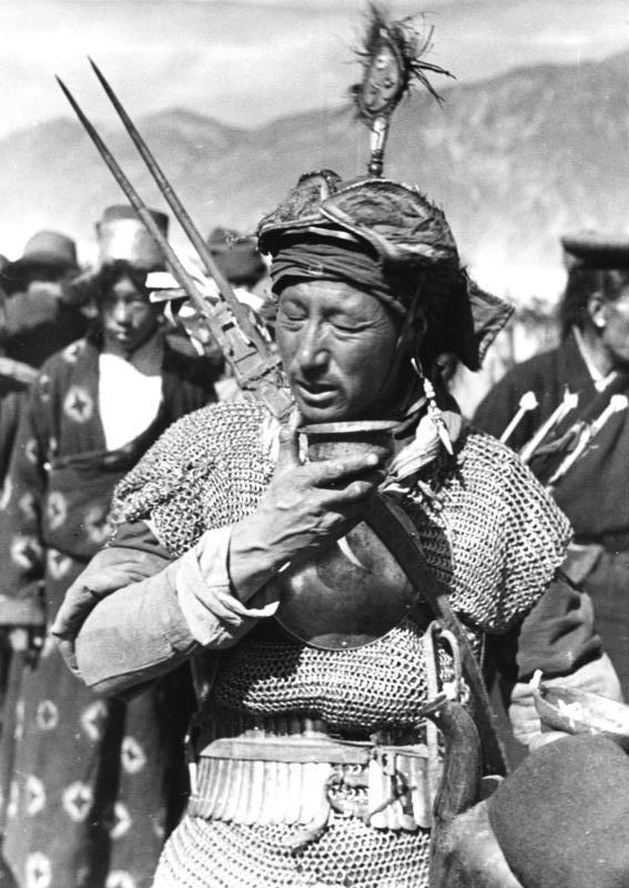 Lhasa, Neujahrsparade, Krieger nehmen Erfrischungen (Lhasa, new year's parade, warriors take refreshments, shown wearing a helmet, mirror armor over a mail shirt (hauberk) and an armoured belt)